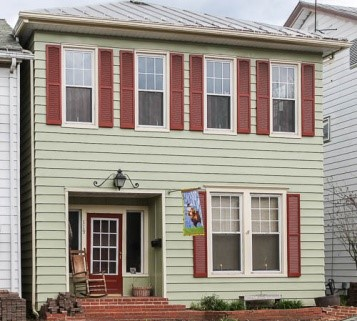 Image of 119 South Second Street Newport PA. One of the homes in Newport Historical District. Taken 2015